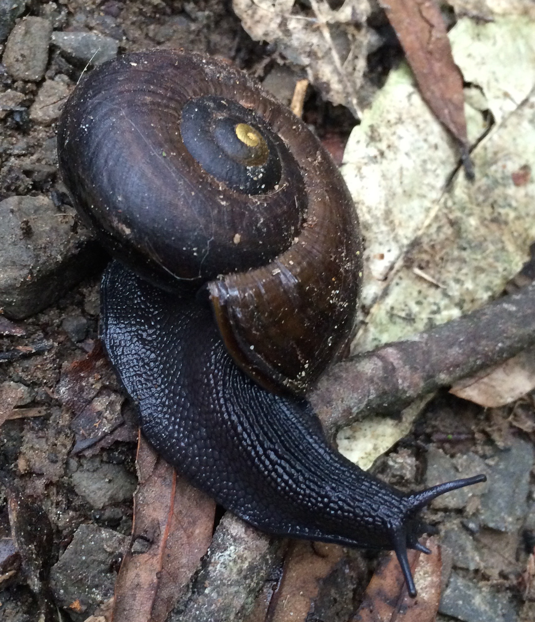 A native land snail, Powelliphanta traversi traversi, taken near the Buller Road entrance of Lake Papaitonga Reserve, New Zealand